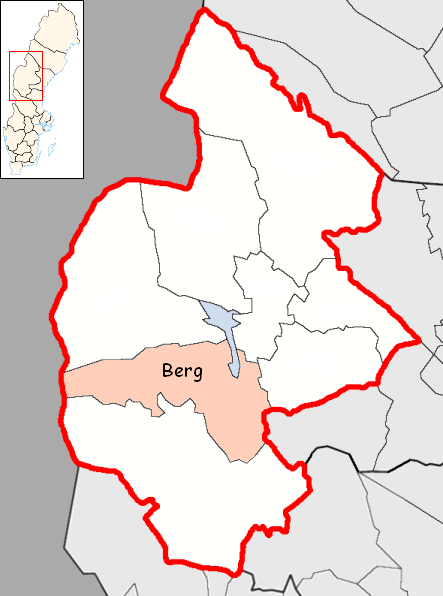 Berg Municipality in Jämtland County Designd by me, based on Image:Jämtland County.png